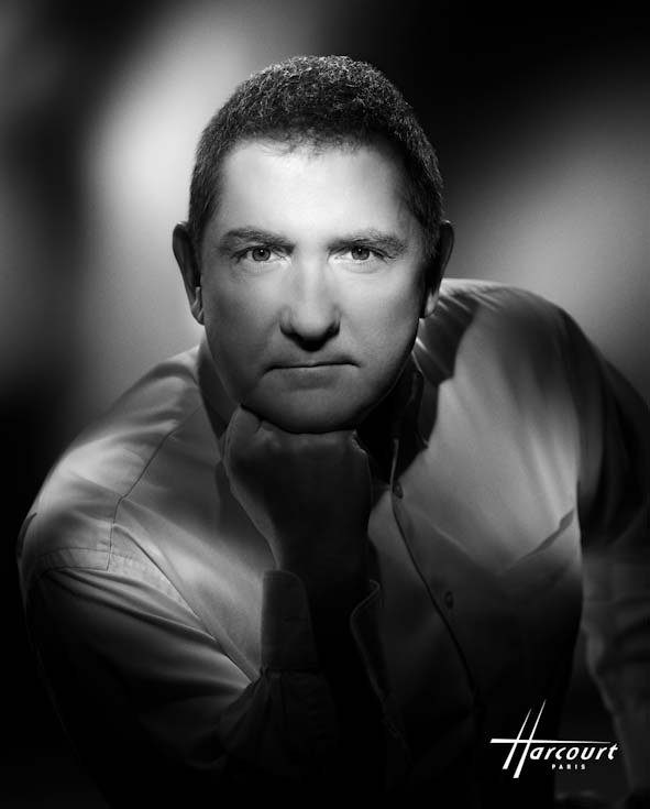 Yves Calvi photographed by Studio Harcourt Paris